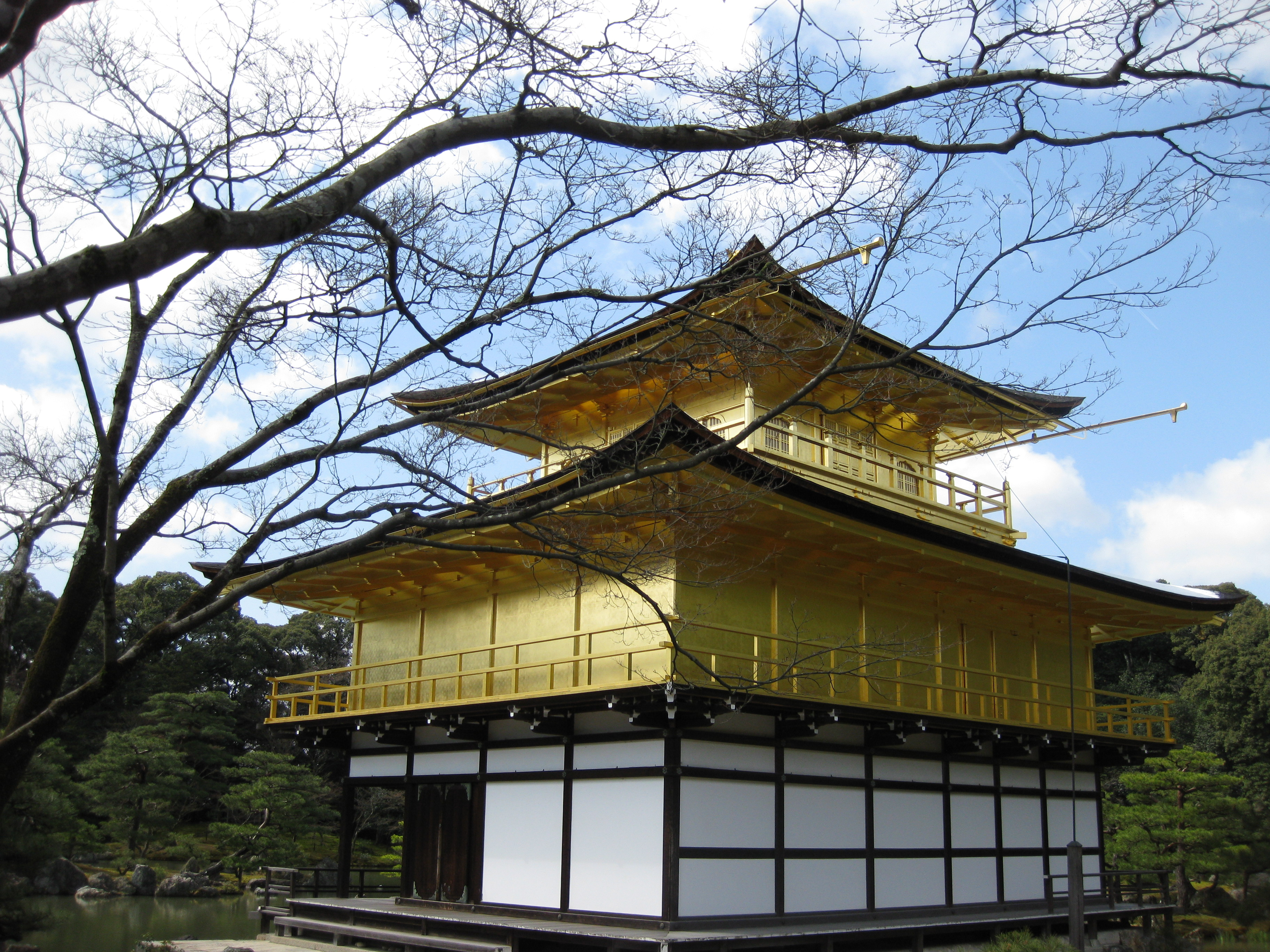 Kinkaku-ji or temple of the Golden Pavillion, in Kyoto, Japan.